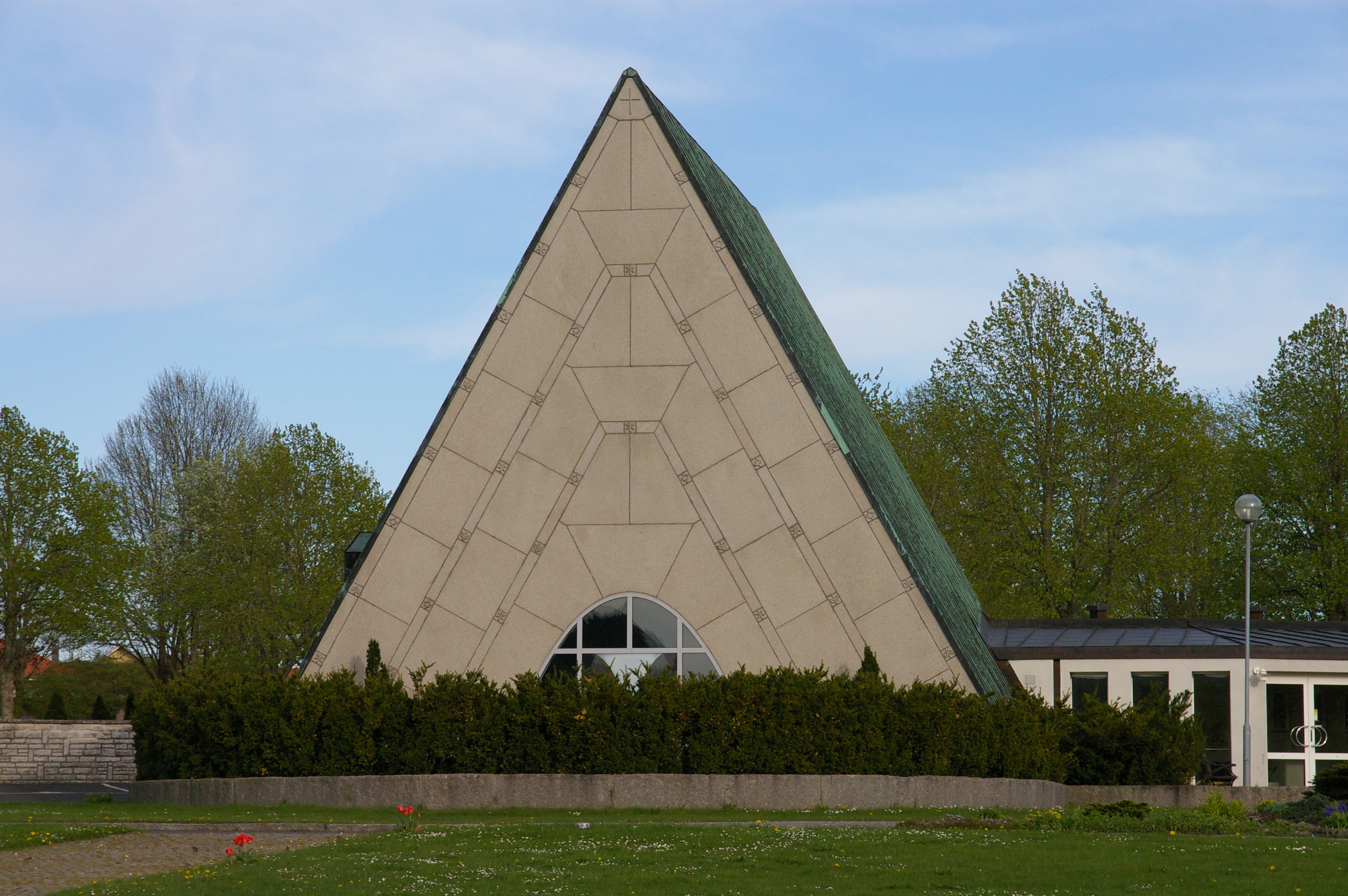 Uppståndelsens kapell (The chapel of revelation) i Falköping, Sweden